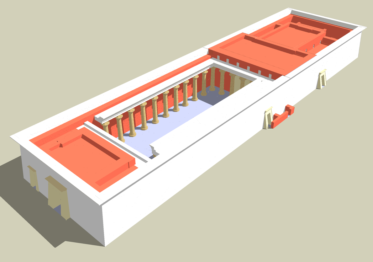 Trial restored view of Merenptah's palace of Memphis - 19th dynasty of Egypt